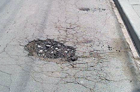 A Small pothole